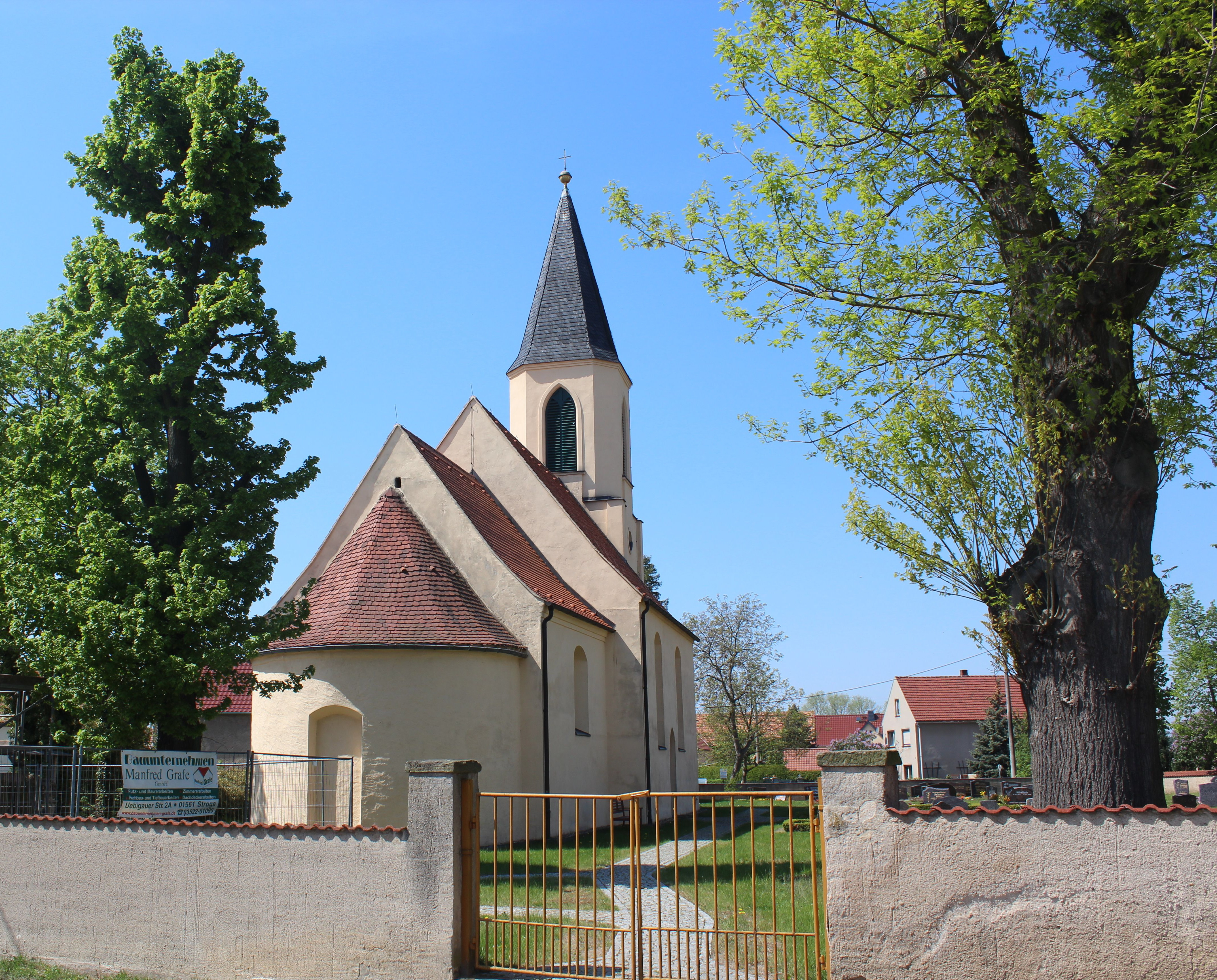 The village church of Strauch in Saxony. The Belltower was built in the year 1864.